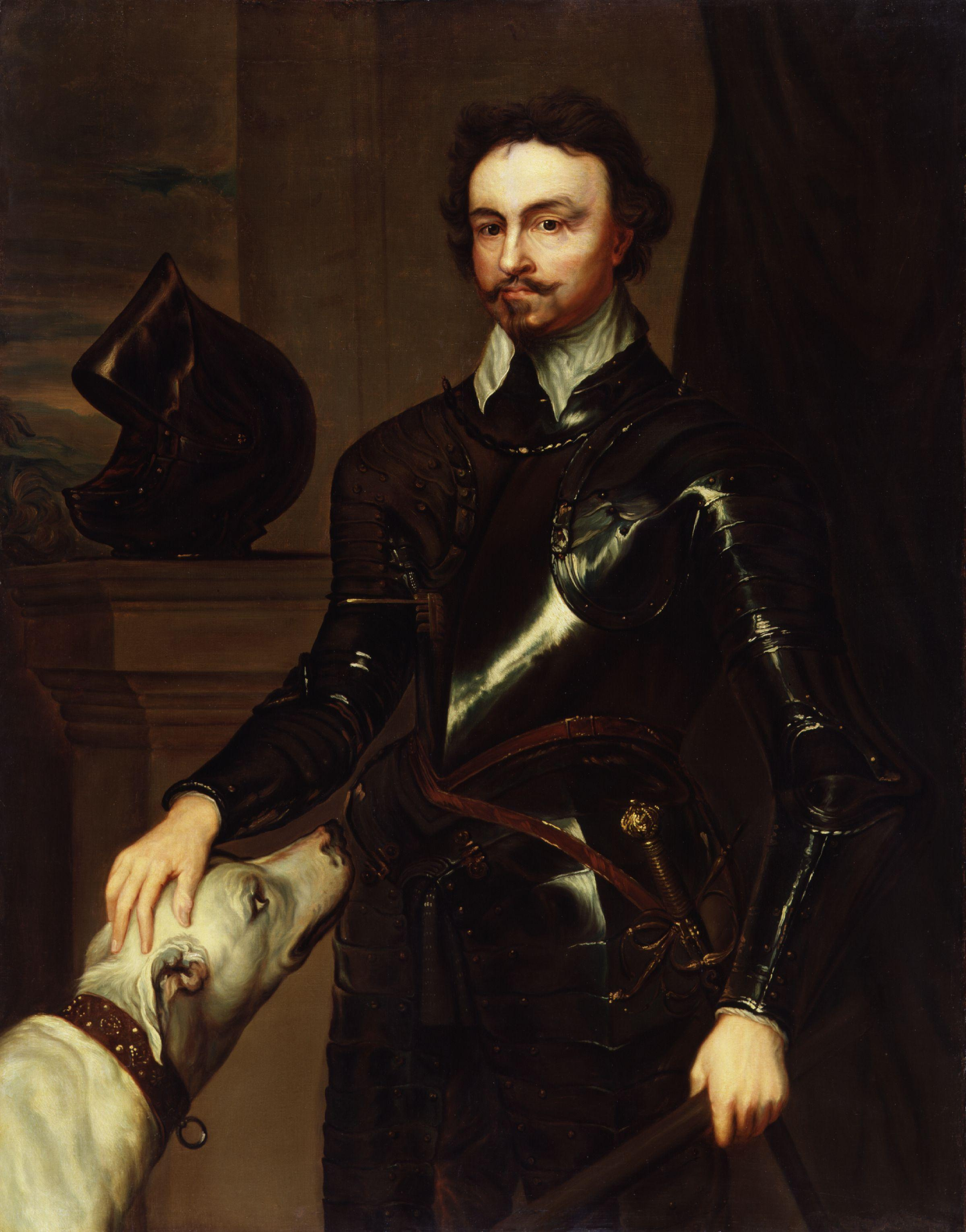 Thomas Wentworth, 1st Earl of Strafford, after Sir Anthony Van Dyck (died 1641). All images in this batch have been confirmed as author died before 1939 according to the official death date listed by the NPG.